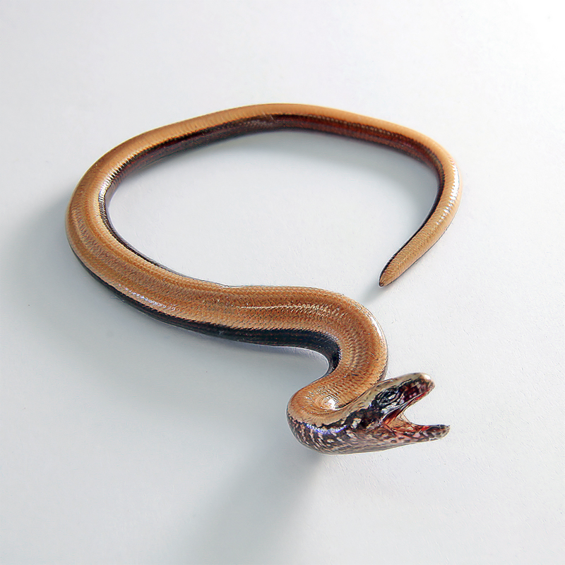 Description: Anguis fragilis (the slow worm, slow-worm, slowworm, blindworm or blind worm) is a limbless reptile native to Eurasia. Size: 8cm